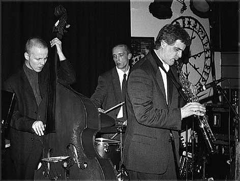 The Norwegian jazz band Element in concert in Norway. From left: Ingebrigt Håker Flaten, Paal Nilssen-Love and Gisle Johansen.